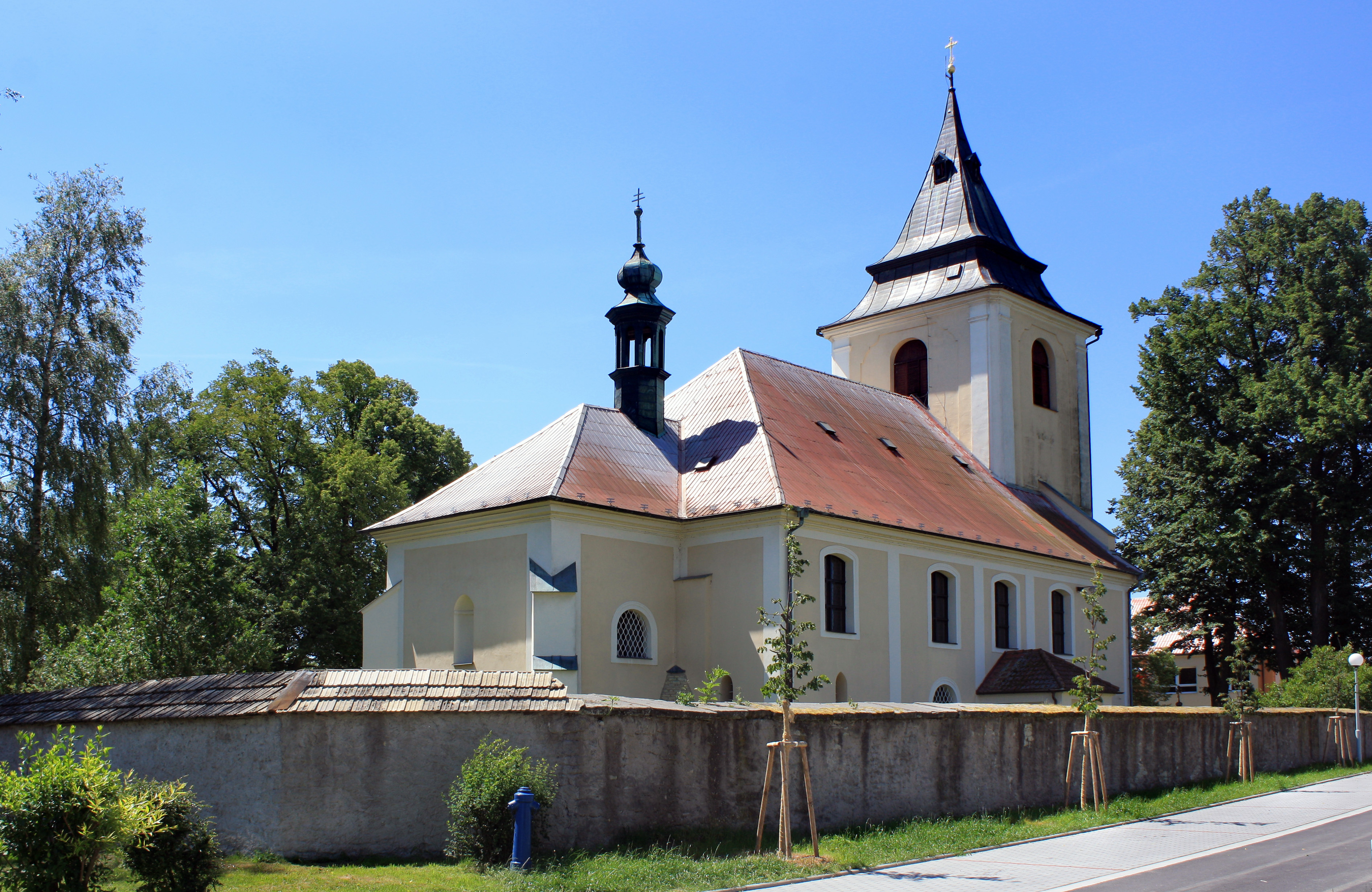 Saint Nicholas Church in Sebranice, Czech Republic